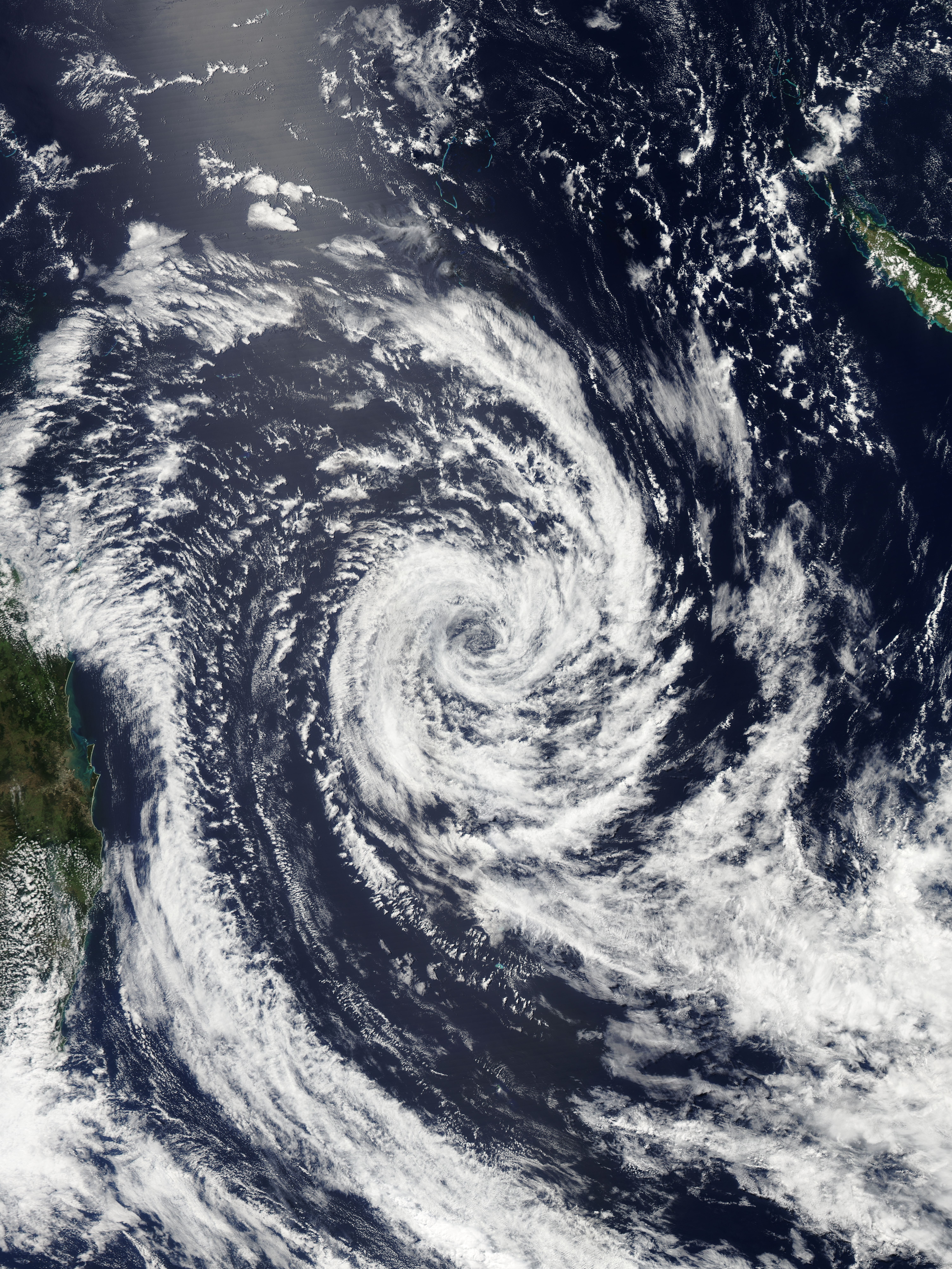 Ex-Tropical Cyclone Winston east of Queensland, Australia on 27 February 2016, which was recognised as a subtropical cyclone by the Joint Typhoon Warning Center.